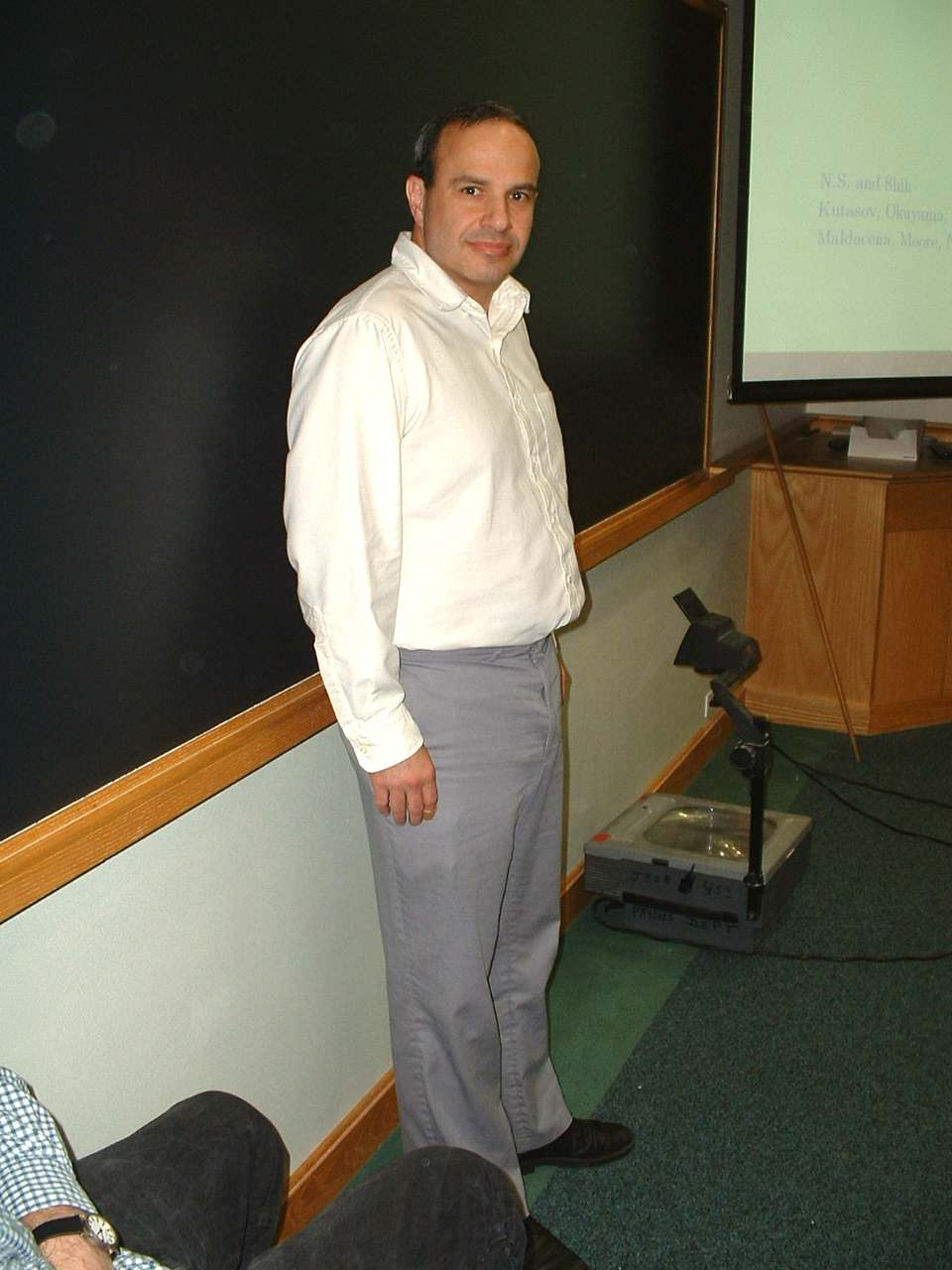 Nathan Seiberg at Harvard